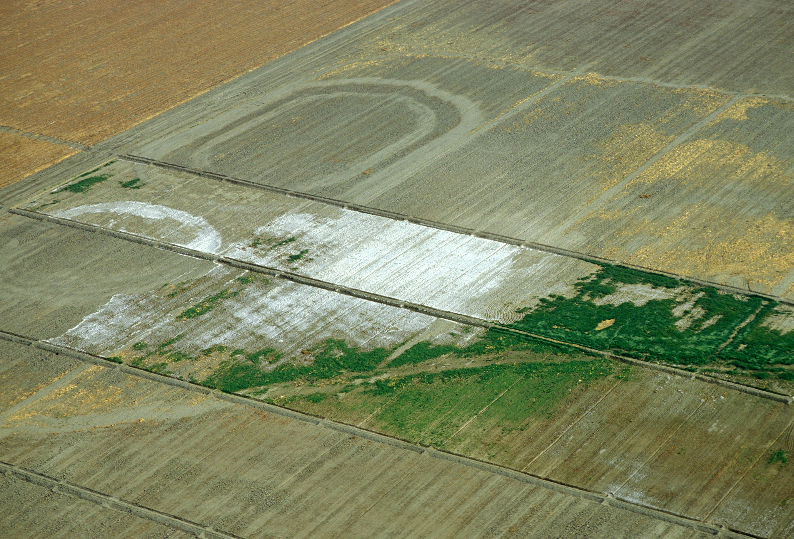 Aerial view of fields in central California (western San Joaquin Valley) suffering from severe salinization.